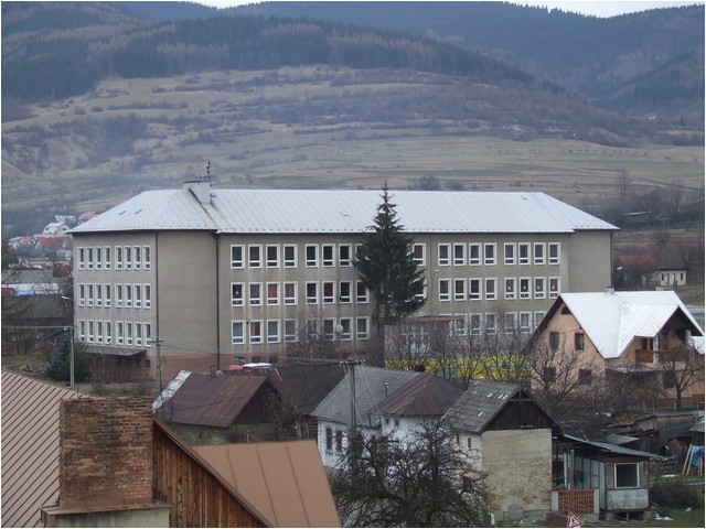 skola v Stiavniku